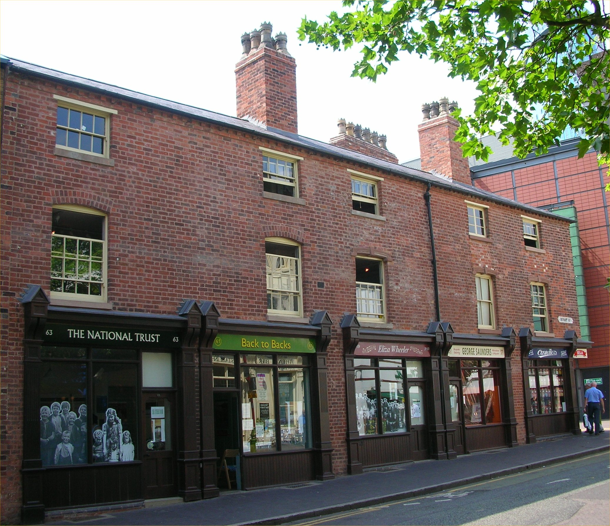 Restored back to back houses on Hurst Street / Inge Street corner, Birmingham, England.